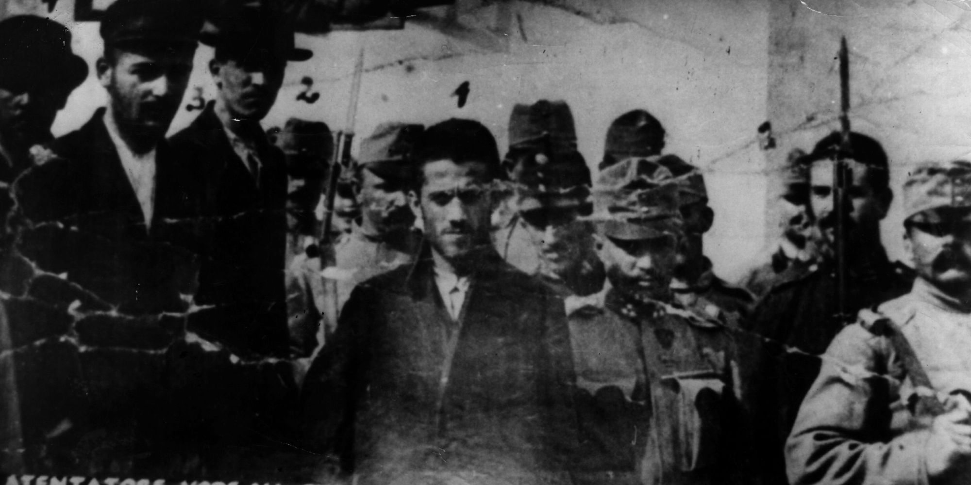 The men accused of the assassination of Archduke Franz Ferdinand and his wife, are conducted into the court room: Gavrilo Princip (1) Danilo Ilić (2) Nedeljko Čabrinović (3) The image is a zoomed-in version of a larger photograph. The larger version entered the public during the trial.